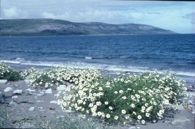 Looking west from Bishopsquarter, with sea mayweed. Photograph taken on eastern shore of Ballyvaghan Bay. Sea mayweed in foreground; the background hills are the westernmost Burren mountains.